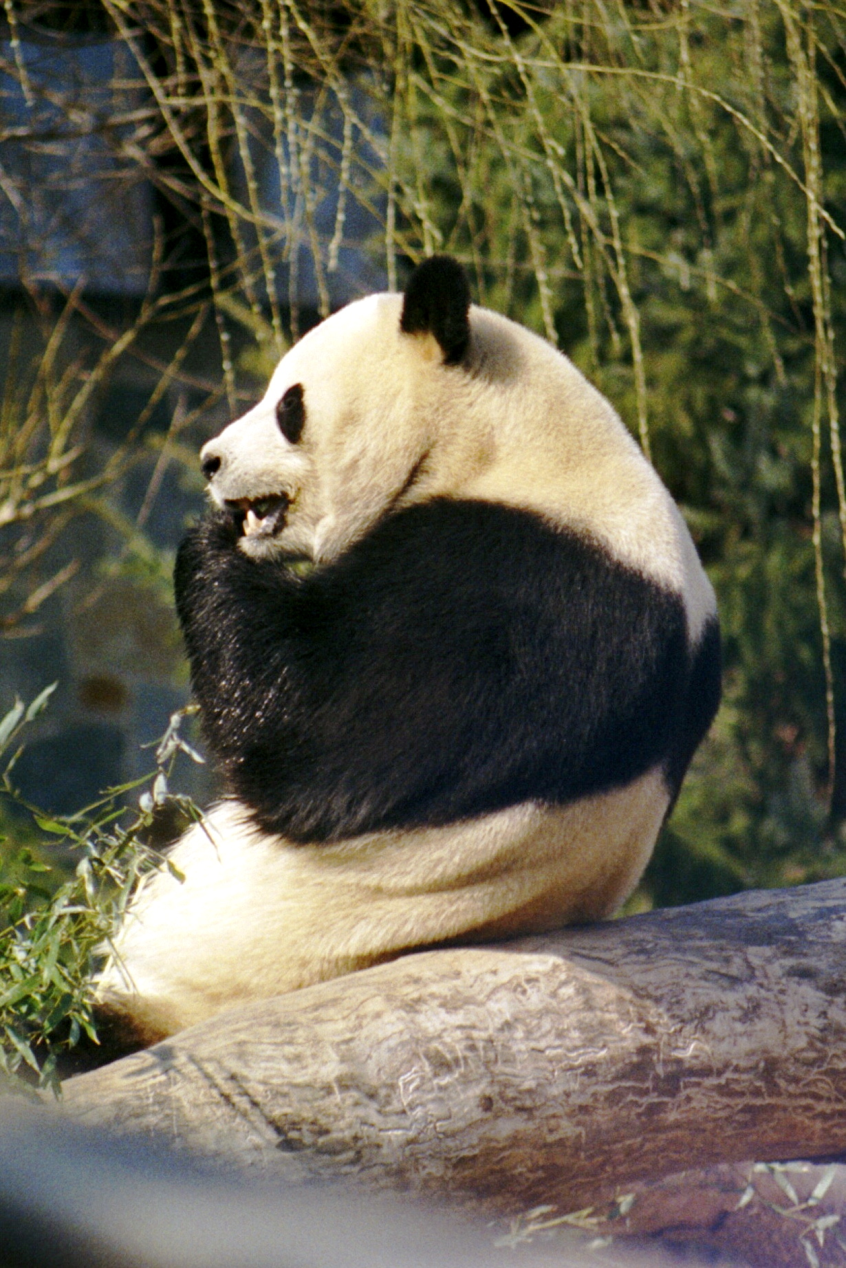 Male Giant Panda "Tian Tian" (*1997) at the Smithsonian National Zoological Park in Washington, D.C.